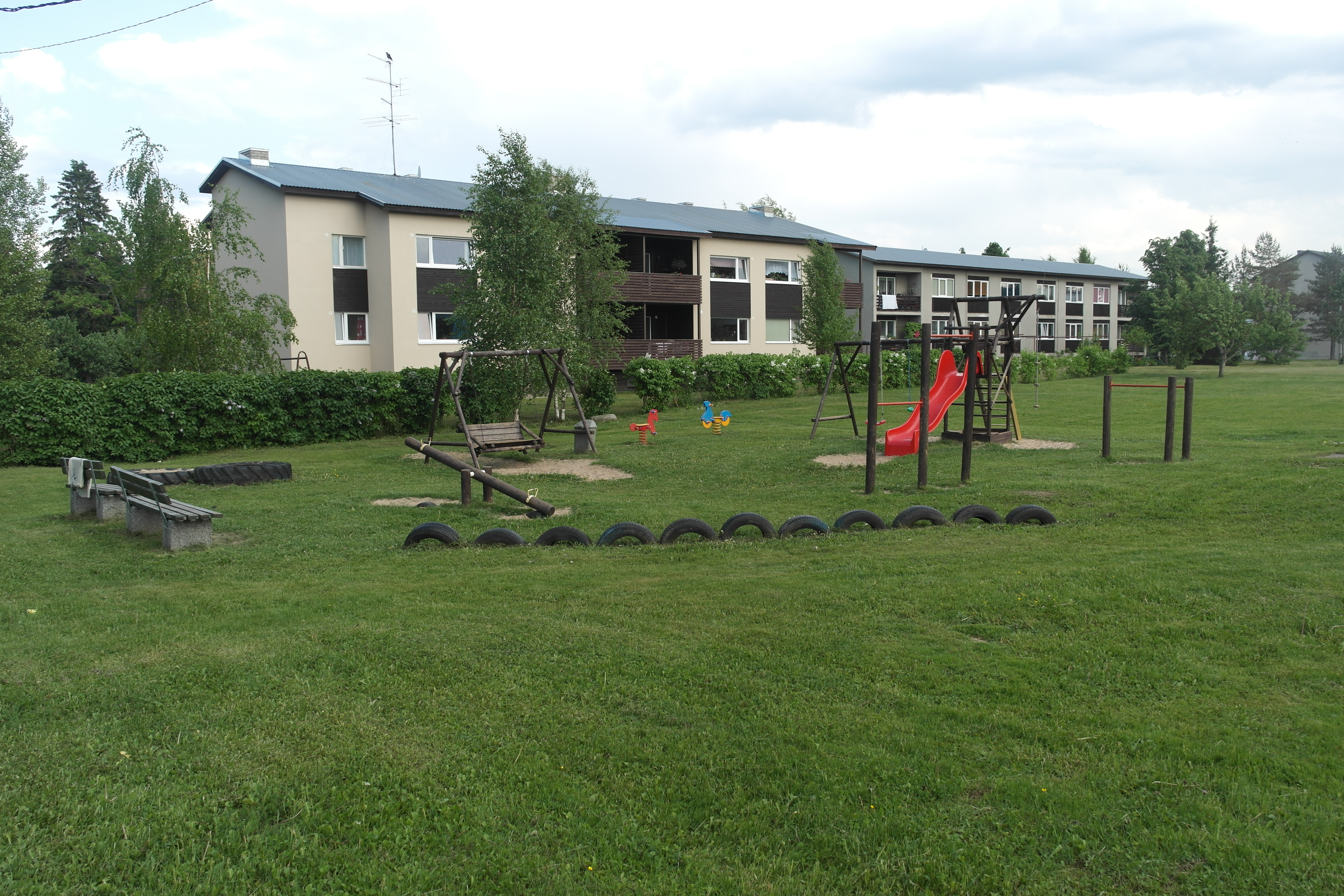 Aruküla small borough playground next to the Aruküla culture centre.